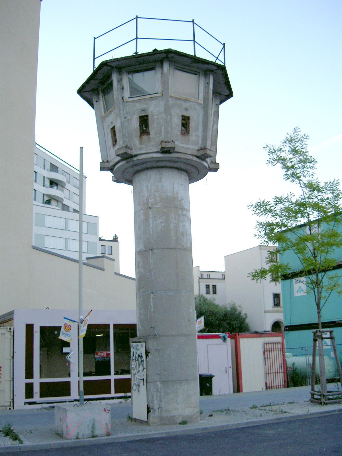 Watch-Tower (Typ BT-6) at the Berlin Wall near Potsdamer Platz